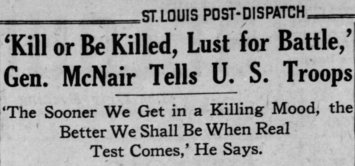 Headline of news report on Lesley J. McNair's November 11, 1942 radio speech.